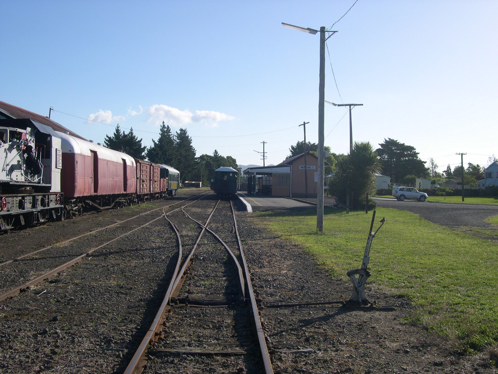 Train Station Waihi, Goldfields Railway Inc., North Island New Zealand